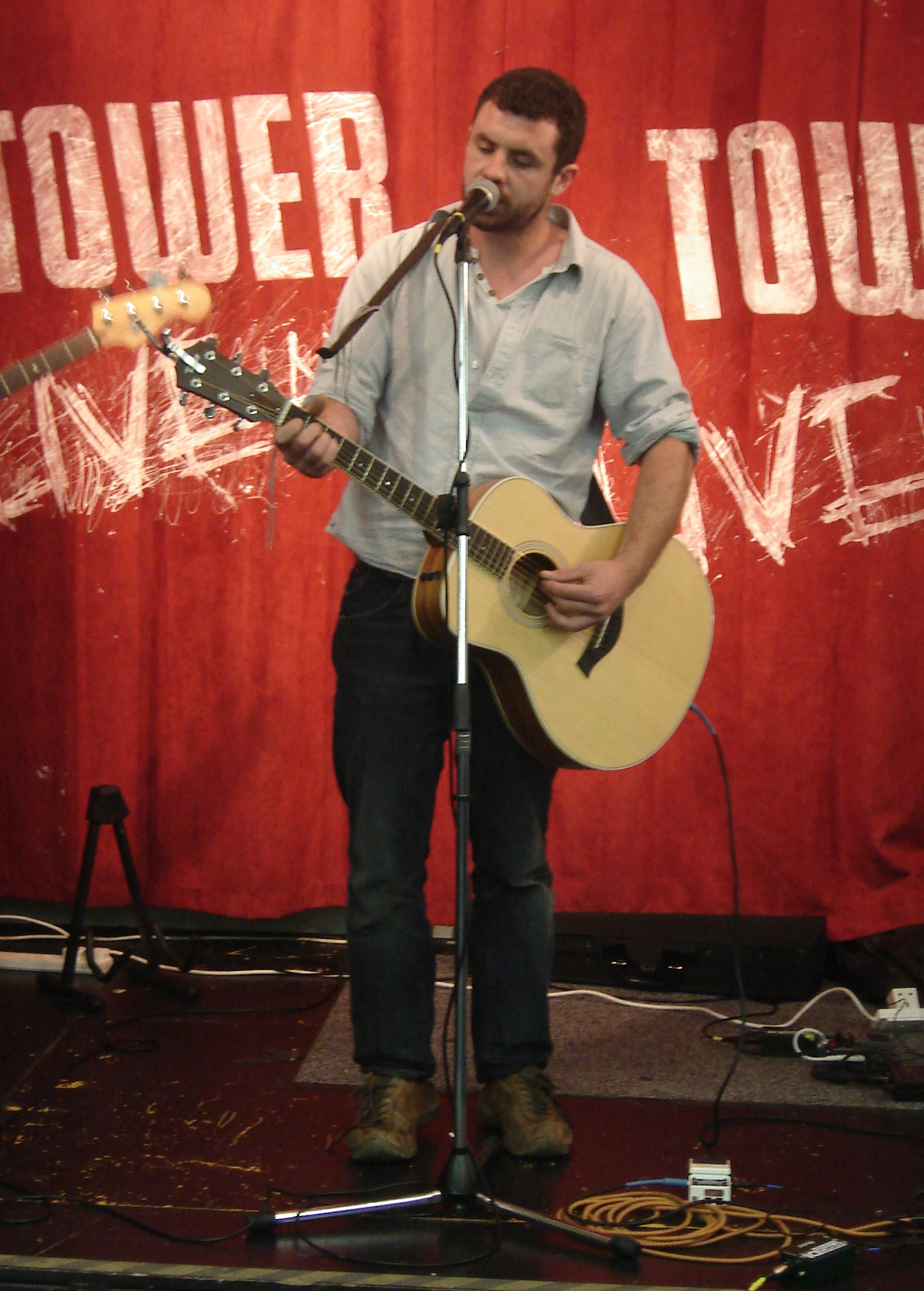 Mick Flannery, Irish singer songwriter. Instore performance in Dublin, 2008.